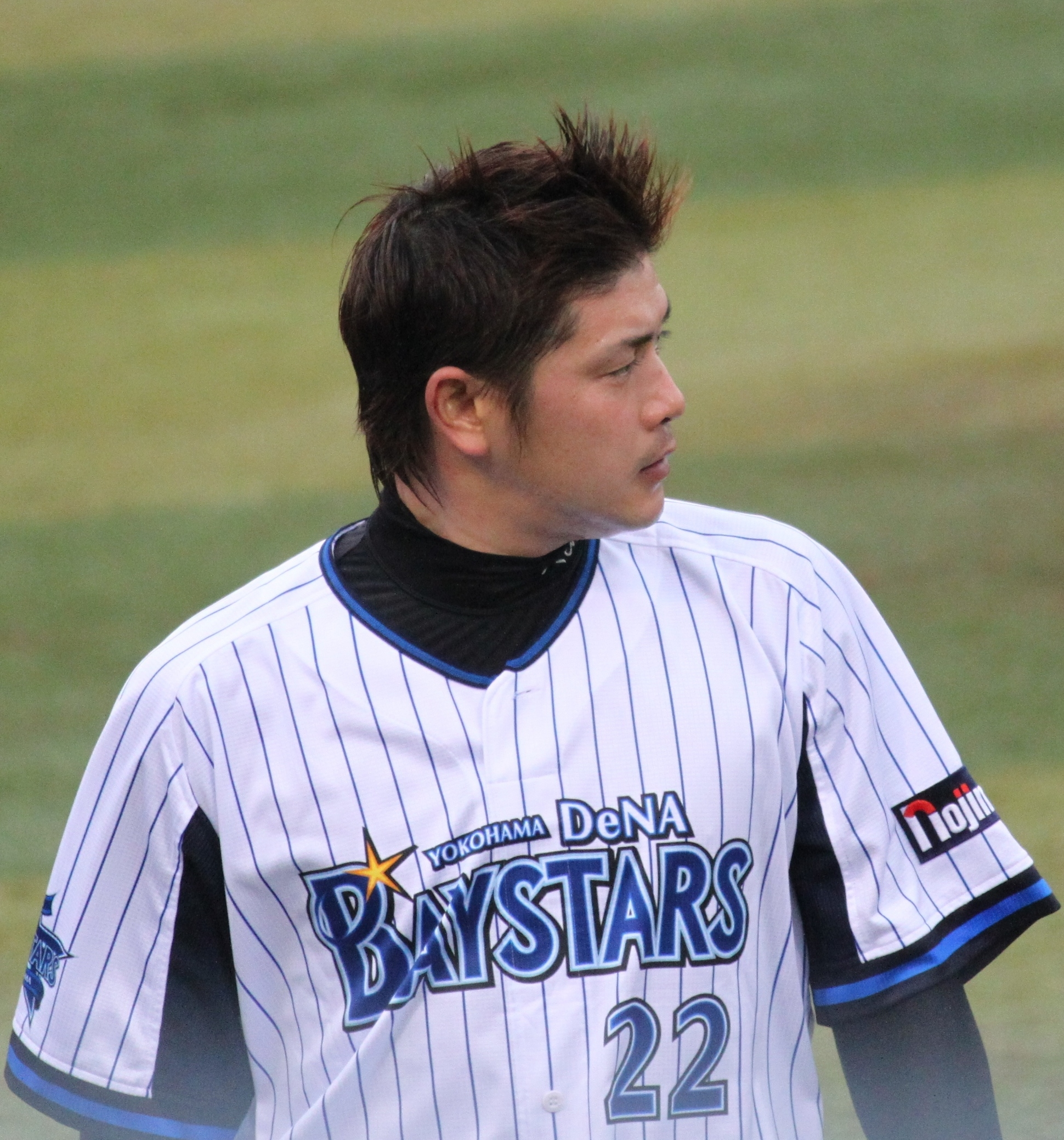 Kentaro Takasaki, pitcher of the Yokohama DeNA BayStars, at Yokohama Stadium.